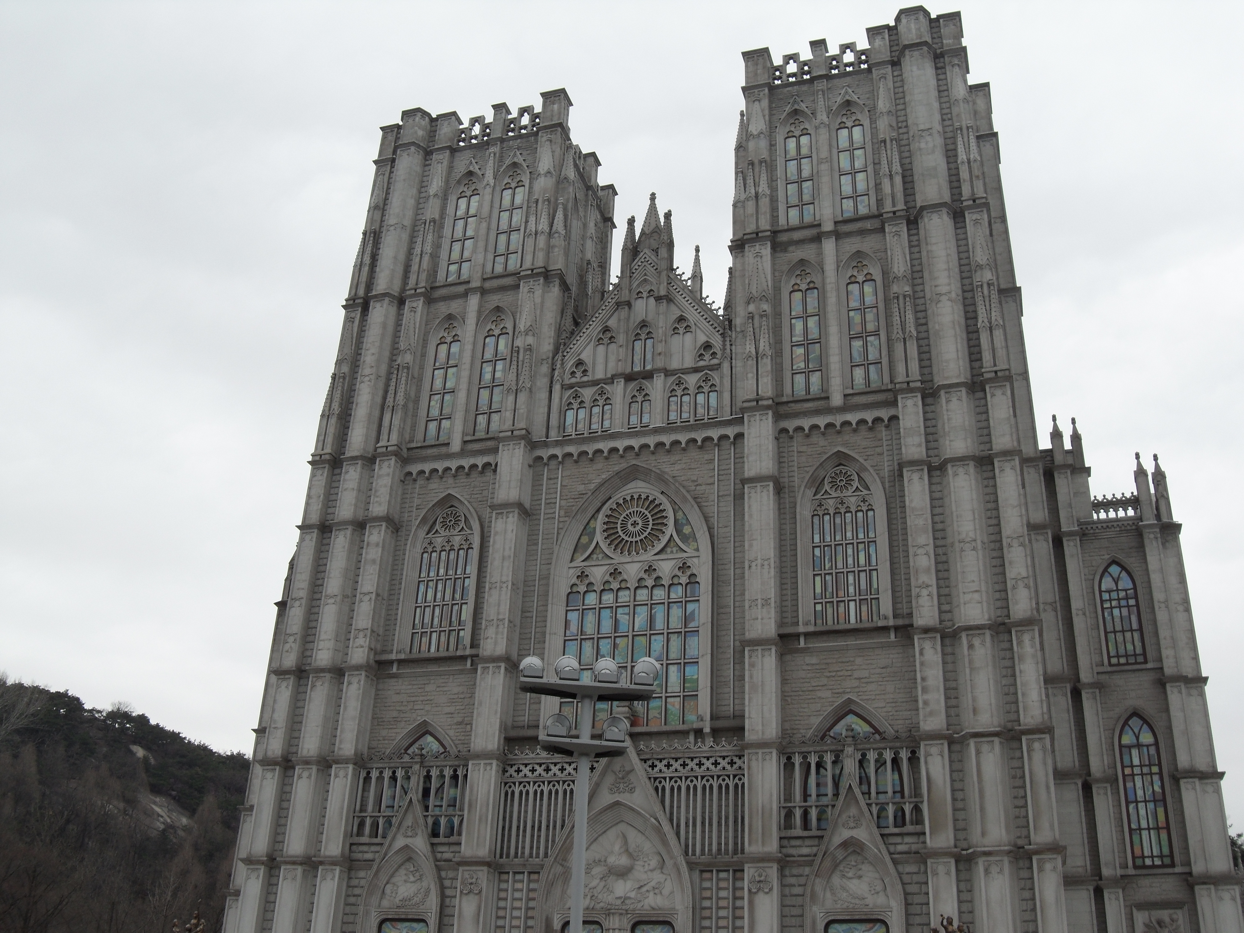 Kyung Hee University Grand Auditorium, Seoul